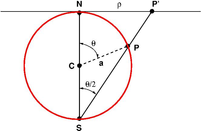 Stereoprojection from South Pole